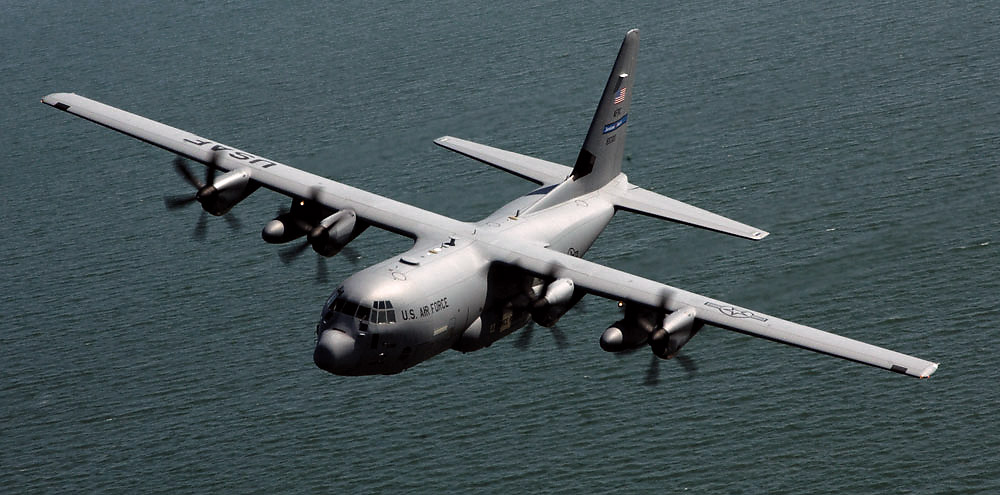 A WC-130J Hercules from the 53rd Weather Reconnaissance Squadron Hurricane Hunters flies a mission. The Air Force Reserve squadron is part of the 403rd Wing at Keesler Air Force Base, Miss. The data collected by the Hurricane Hunters increases the accuracy of the National Hurricane Center Forecast by 30 percent.